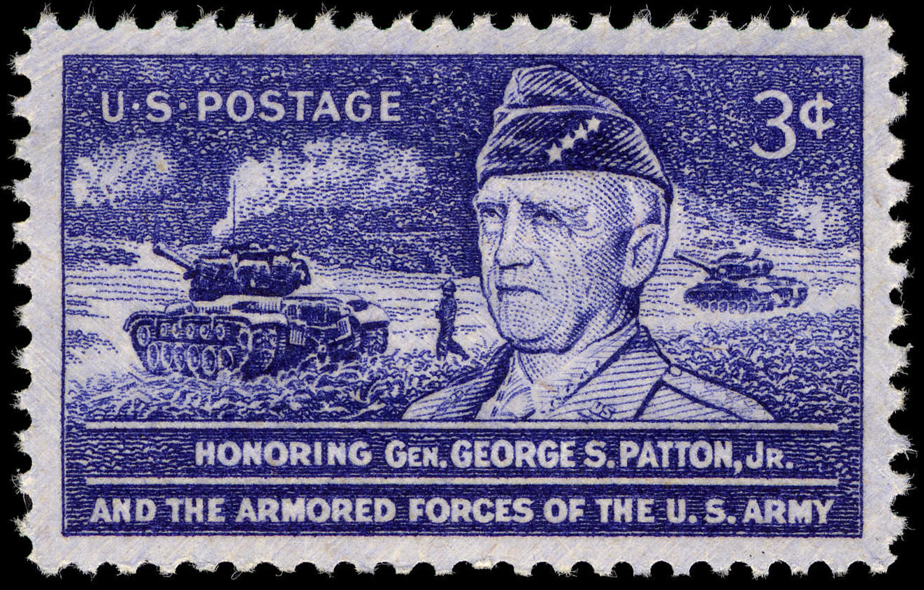 General Patton 3-cent 1953 issue U.S. stamp. "Honoring Gen. George S. Patton, Jr., and the Armored Forces of the US Army."